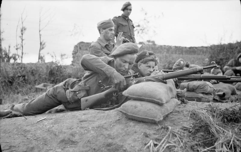 The British Army in the Normandy Campaign 1944 Snipers training at a sniper school in a French village, 27 July 1944.